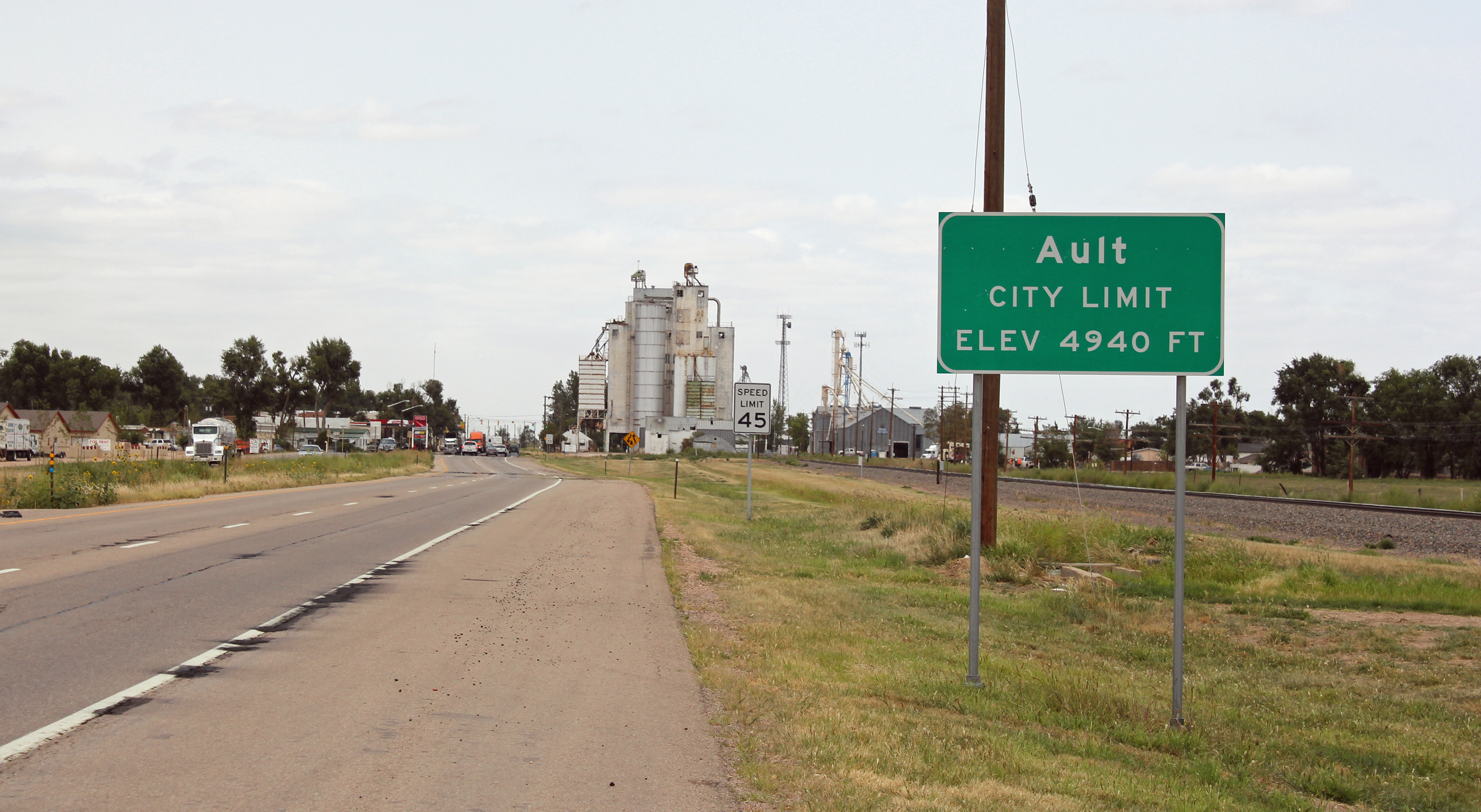 Ault, Weld County, Colorado. The view is to the north, along the shoulder of U.S. Highway 85.